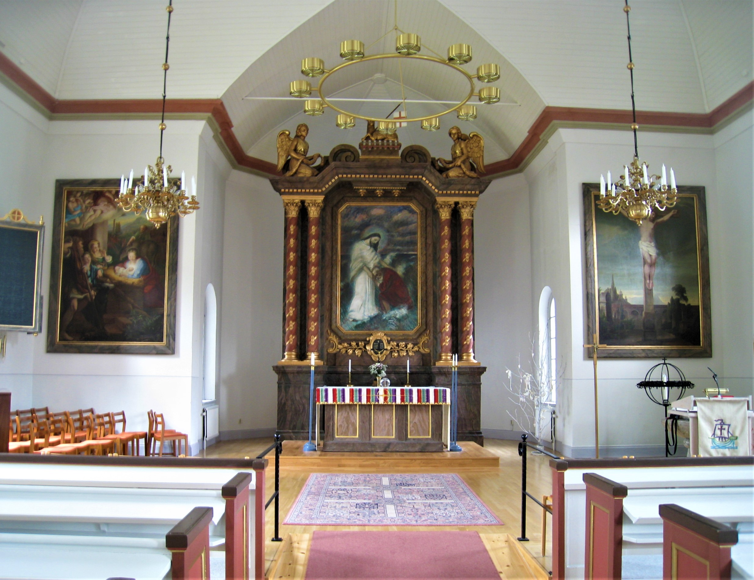 Valdemarsvik Church, altarpiece by David Wallin, painted in 1918-1919, with the motif "Christ and the sinking Peter . The choir in the church with the two paintings, on the left Jesus' birth and on the right Jesus' death on the cross, by the decoration painter H. Liljequist from 1877.